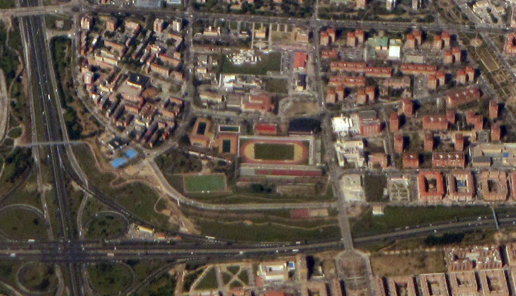 Puente de Vallecas